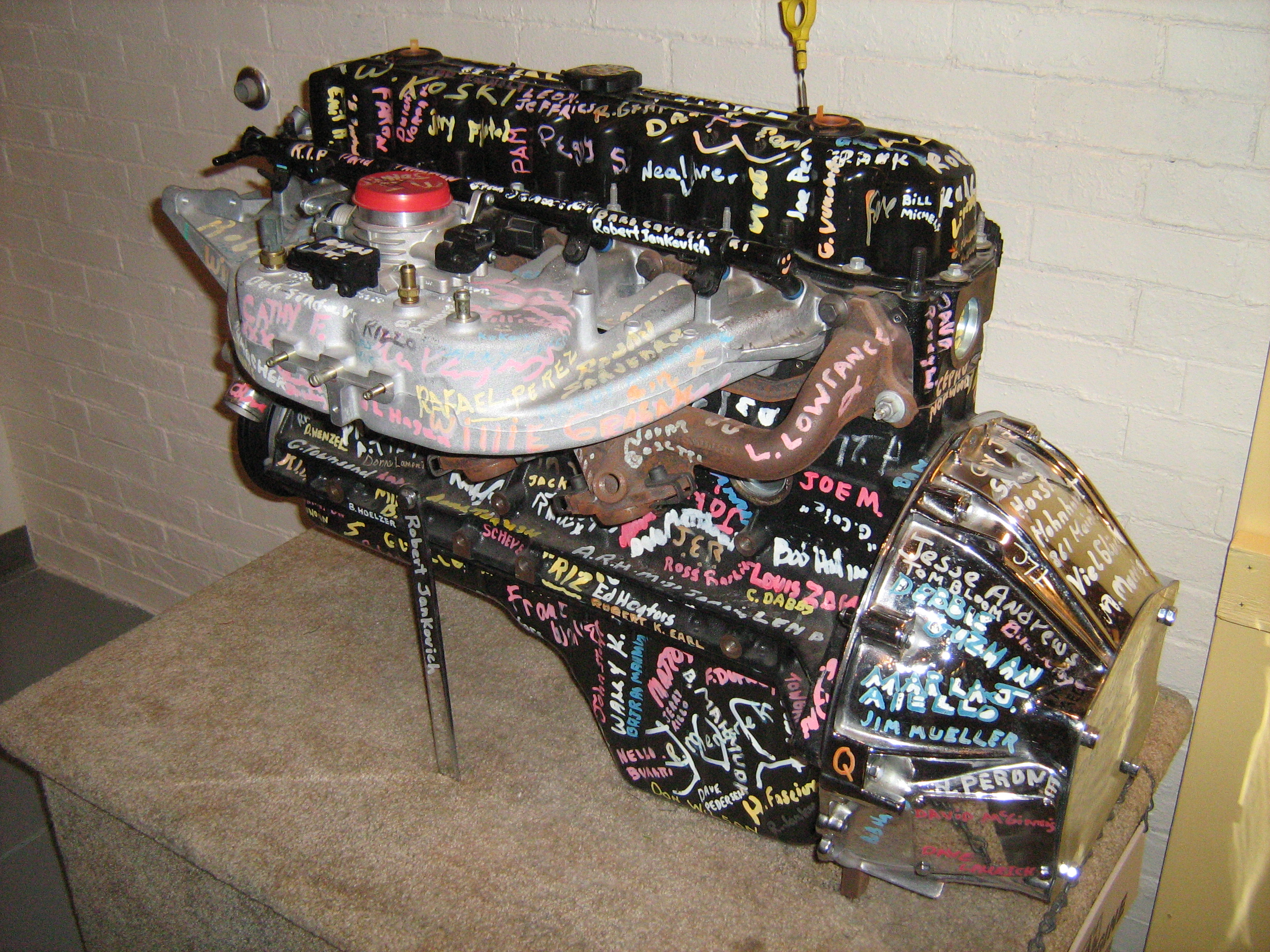 Jeep 4.0 L engine. The 5 millionth produced in Kenosha, Wisconsin, and signed by the workers. Originally designed by American Motors Corporation (AMC) in conjunction with Renault. These engines were later produced and refined by Chrysler. This was the last Jeep 4.0 XJ engine produced on the "Greenlee Block Line" and dated 2001-06-15. Picture taken in the Kenosha History Museum